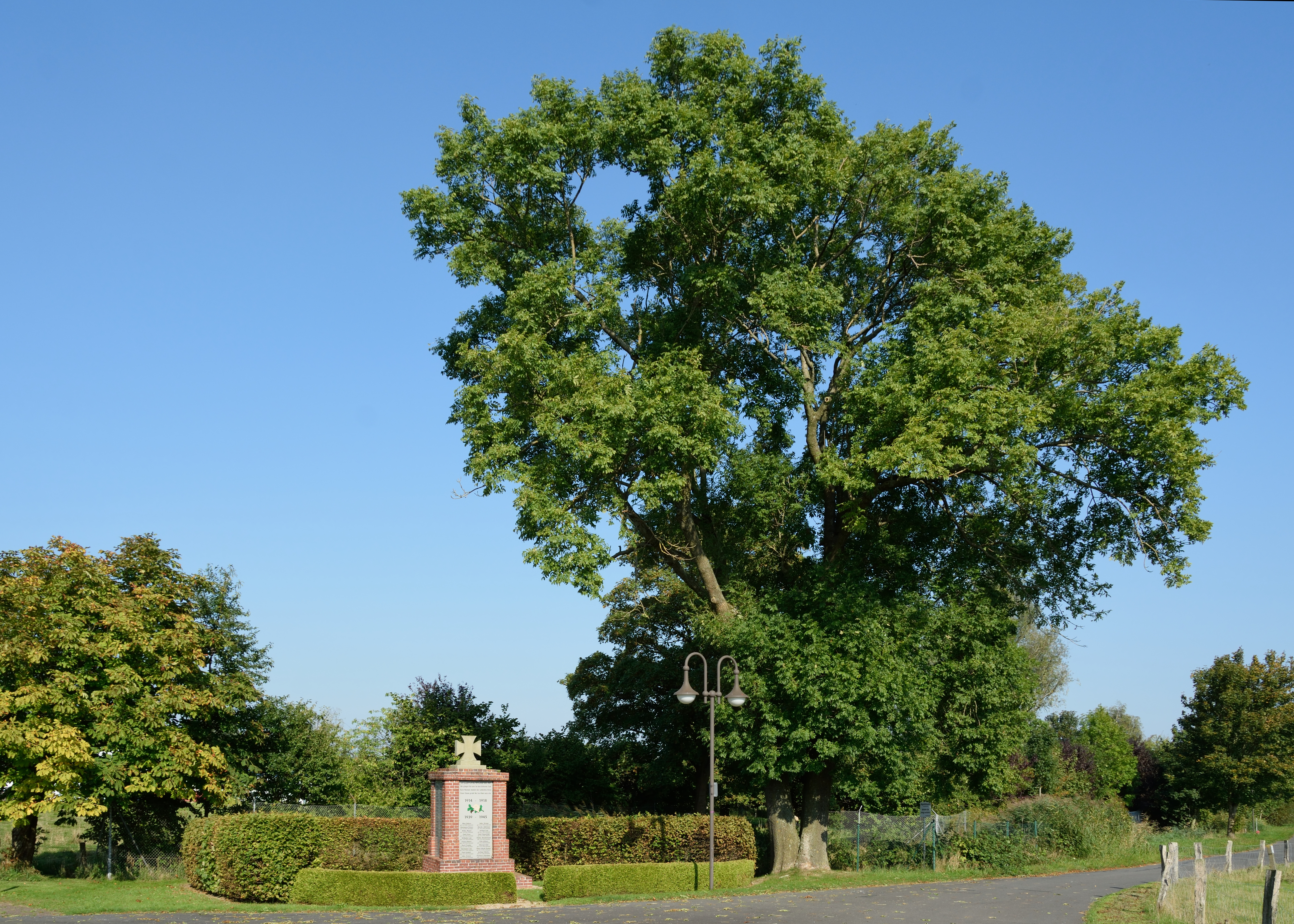 The ash at the memorial to the fallen of World Wars in Büttel